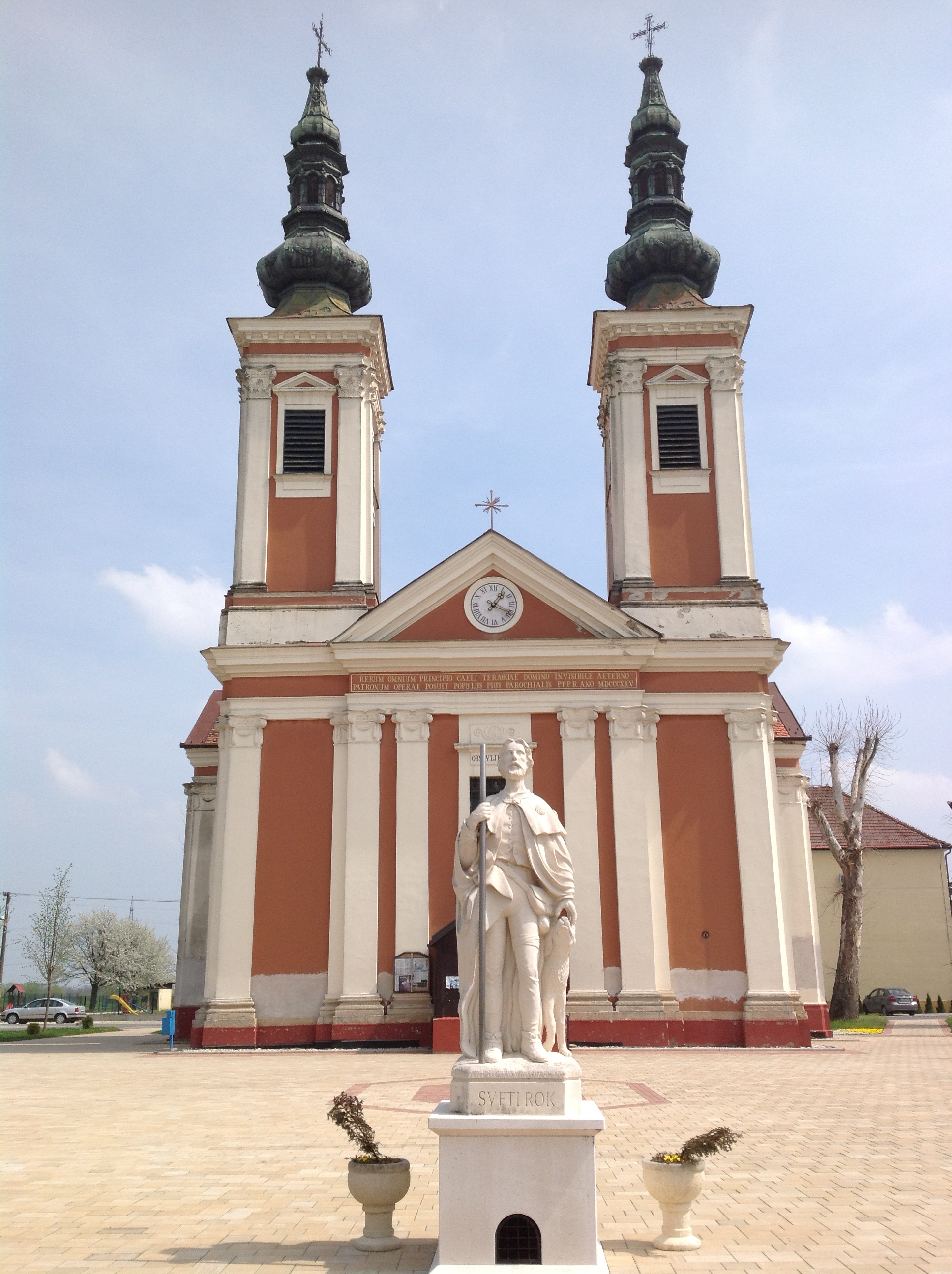 Draškovec, Medjimurie County, Croatia - church